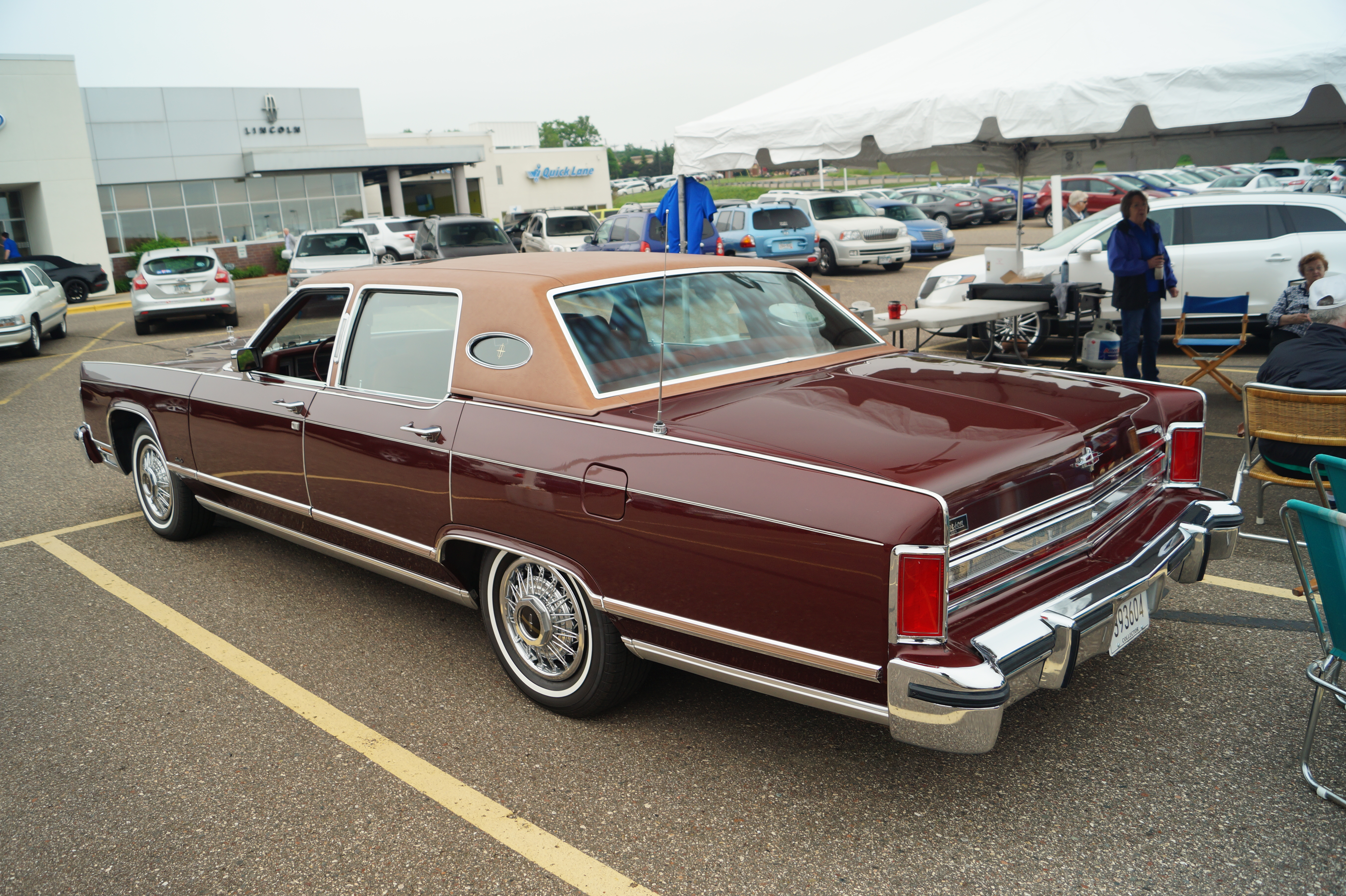 Lincoln & Continental Owners' Club North Star Region 8th Annual Classic Lincoln Car Show Morrie's Minnetonka Ford-Lincoln Minnetonka, Minnesota Click here for more car pictures at my Flickr site.